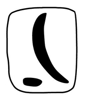 Drawing of the parietal plicae of Halongella schlumbergeri (Morlet, 1886), synonym: Plectopylis schlumbergeri (after Gude 1901).